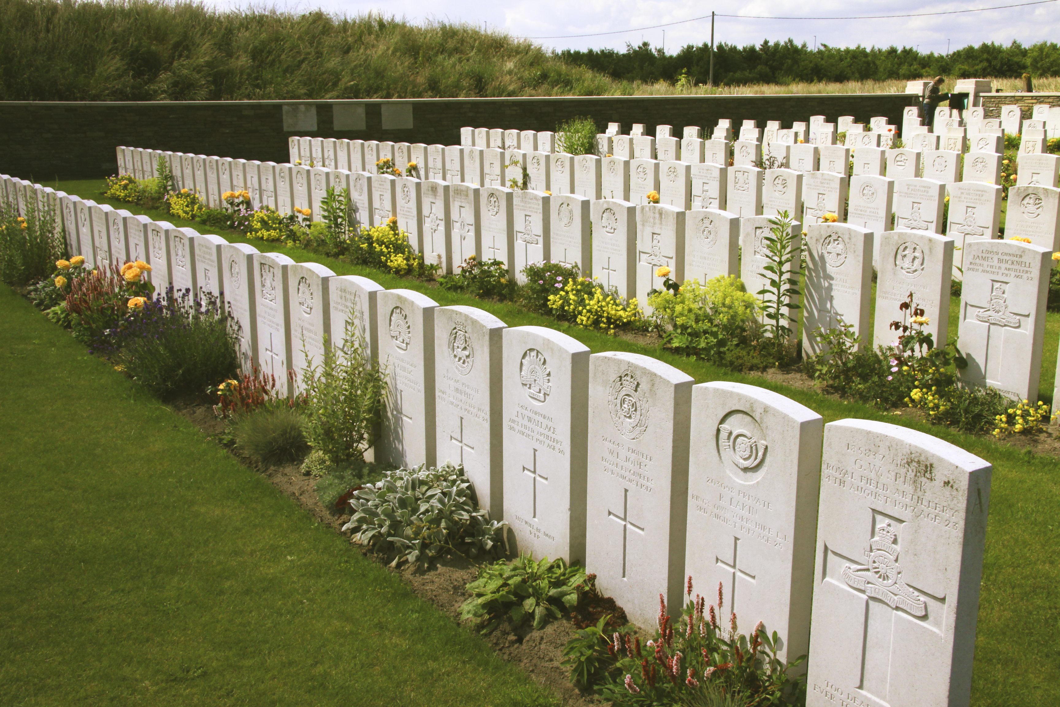 Adinkerke Military Cemetery. Graves